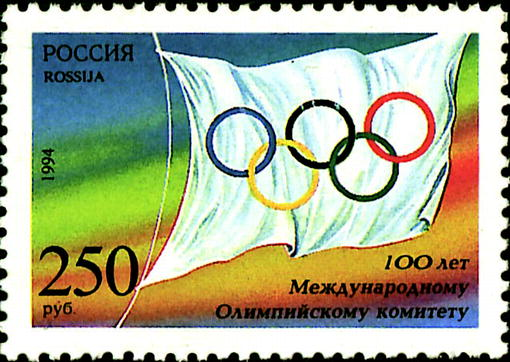 Stamps of Russia. The 100th anniversary of the International Olympic Commitettee, 1994